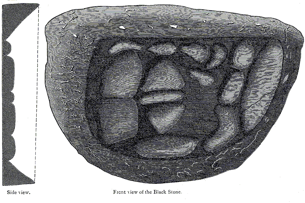 "The Black Stone, front and side views" (original caption)